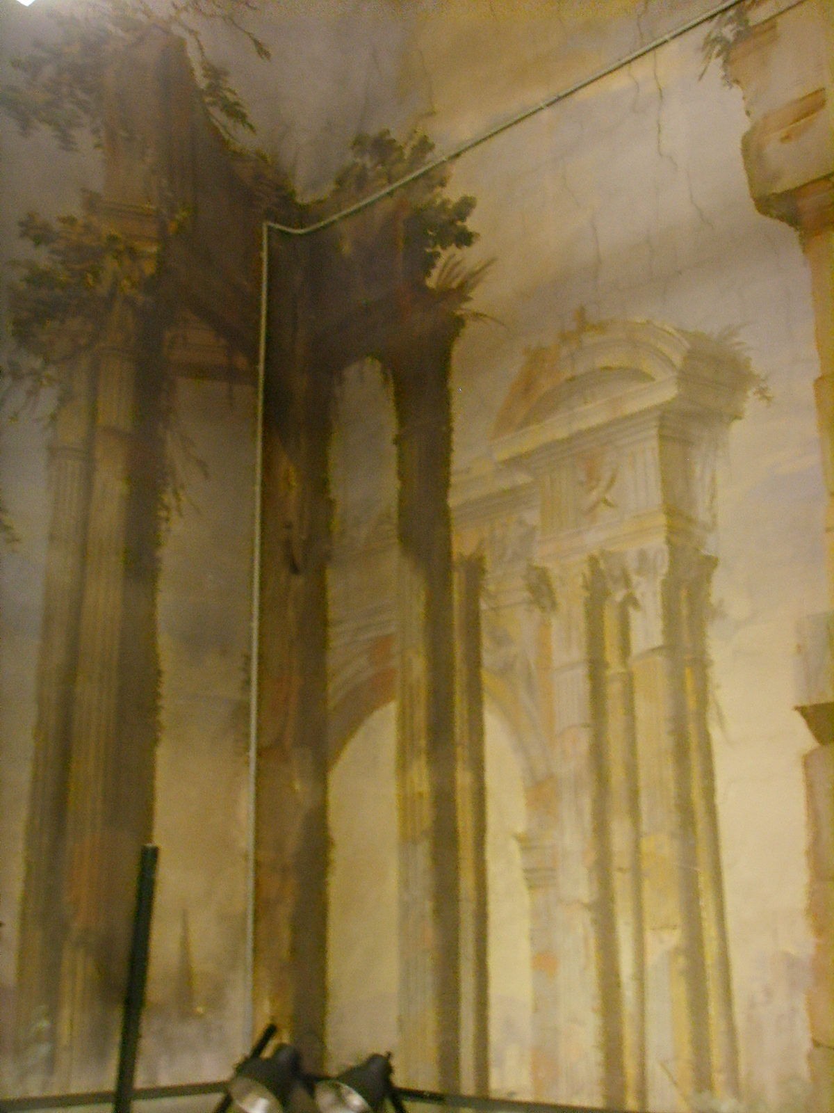 Palazzo_di_San_Clemente,_ library frescoed rooms. See filename for room ref. number Frescos of XVIII century by unknown author(s) in Florence